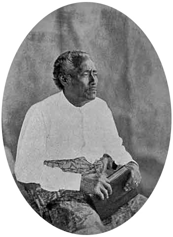 "Maafu, the Tongan Chief " f.p. 266. Photo by late Colonel Stewart, R.E. Caption reads: "Maafu, the Tongan Chief, Viceroy of the Lau or Eastern Islands of Fiji during the reign of King Thankombau." This caption is so brief and specific that it is rather misleading. It is true that Viceroy was Ma'afu's designation during the brief constitutional monarchy in Fiji from 1871-4 immediately prior to Cession. Indeed, his acknowledgement of Cakobau's title of Tui Viti, and his pledge of allegiance, were critical to the success of the Viti government. prior to that, Ma'afu had long been a major threat to the Kubuna confederation, following his military conquest of much of Eastern Fiji and formation of the Tovata ko Natokalau kei Viti confederation (more generally known as the Tovata ko Lau), by amalgamating the old federations of Lau, Cakaudrove and Bua in 1867. Because of their elevation of Cakobau, and his role in Cession, Ma'afu has generally suffered a bad press at the hands of the British (including Brewster in this book). In fact he was demonstrably a far more skilled military and political strategist than Cakobau or any of the Fijian chiefs of his time. He was also an able and sophisticated administrator of his territories. As Derrick wrote (History of Fiji p.163), "it was in Lau that the Fijians first saw constitutional government working smoothly and for their benefit." Had the Viti government and then Cession not intervened, Ma'afu may well have achieved suzerainty over the whole Group, and the subsequent history of Fiji would have been very different.